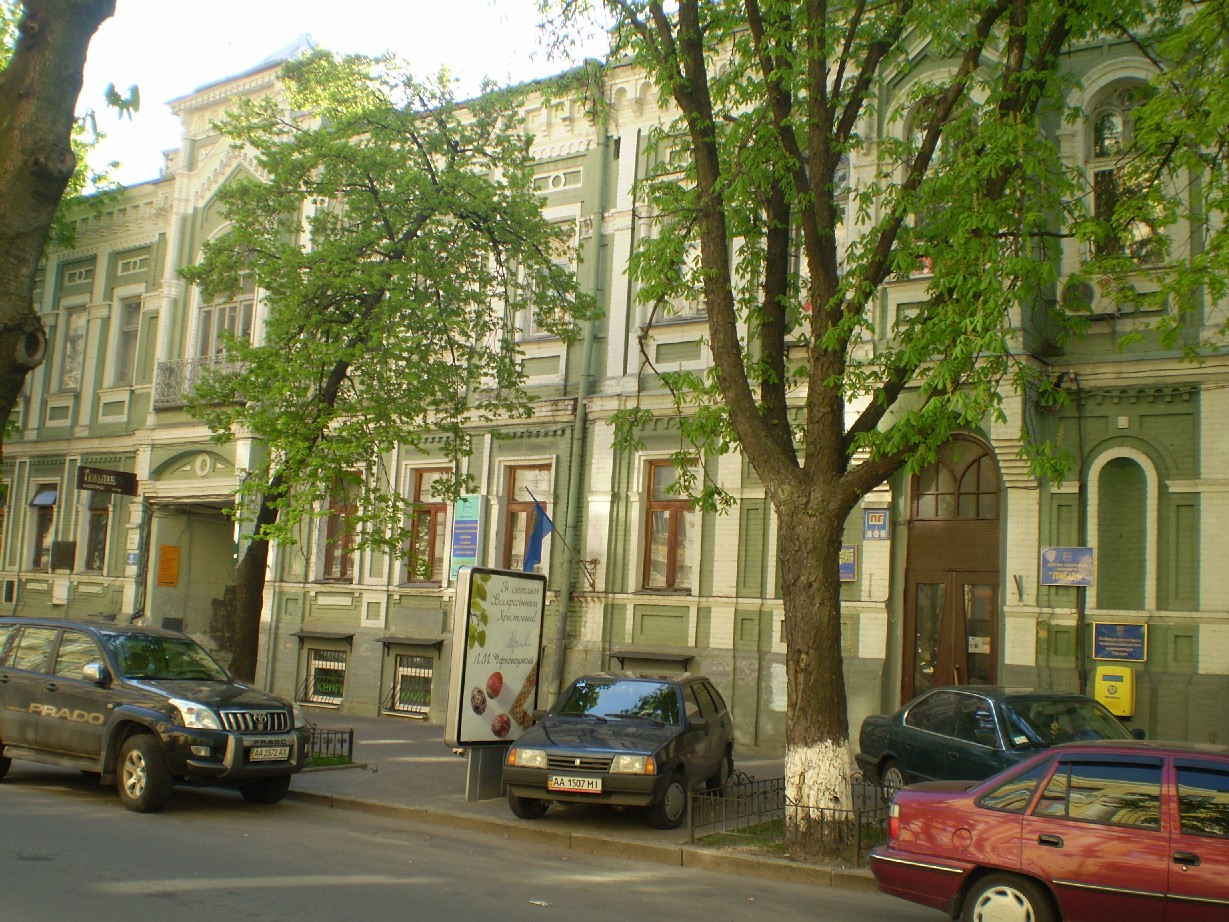 Ukrainian Composer's union